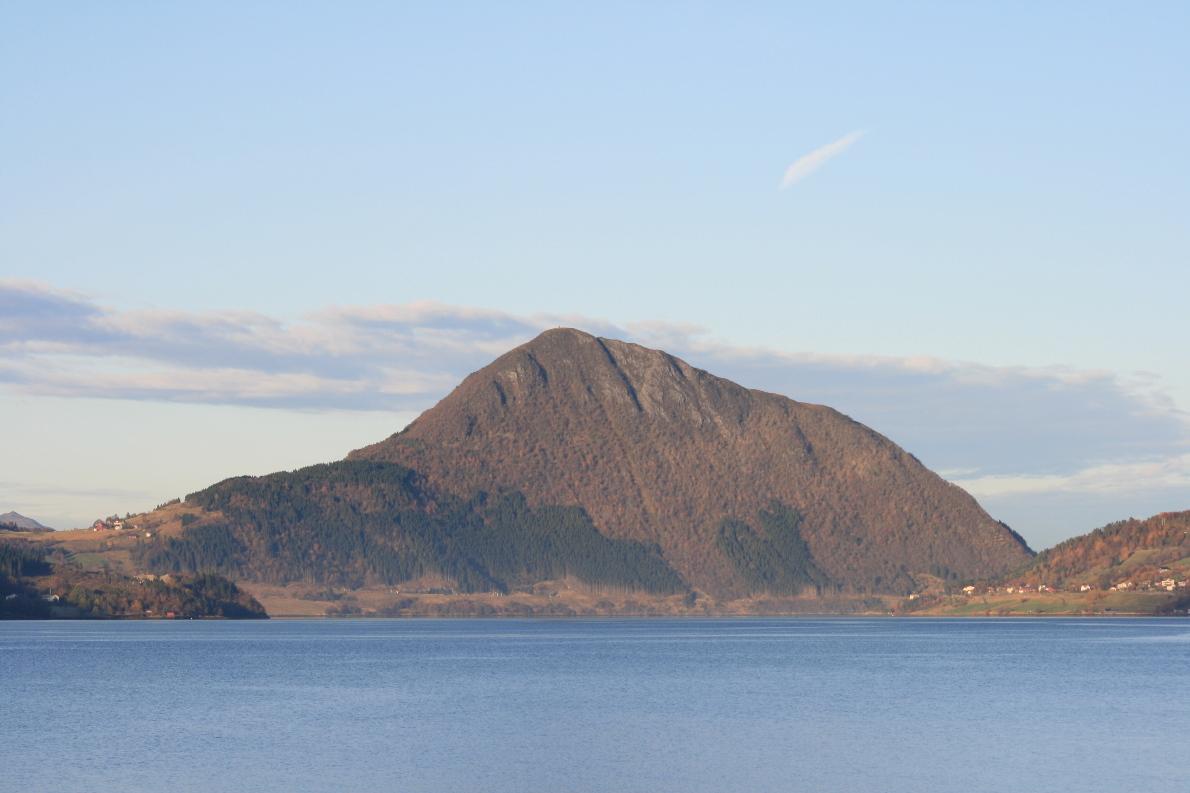 Lidaveten, Volda and Ørsta, Norway